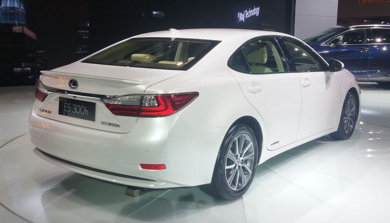 Lexus ES XV60 300h facelift photographed at the Auto Shanghai 2015, Shanghai, China.